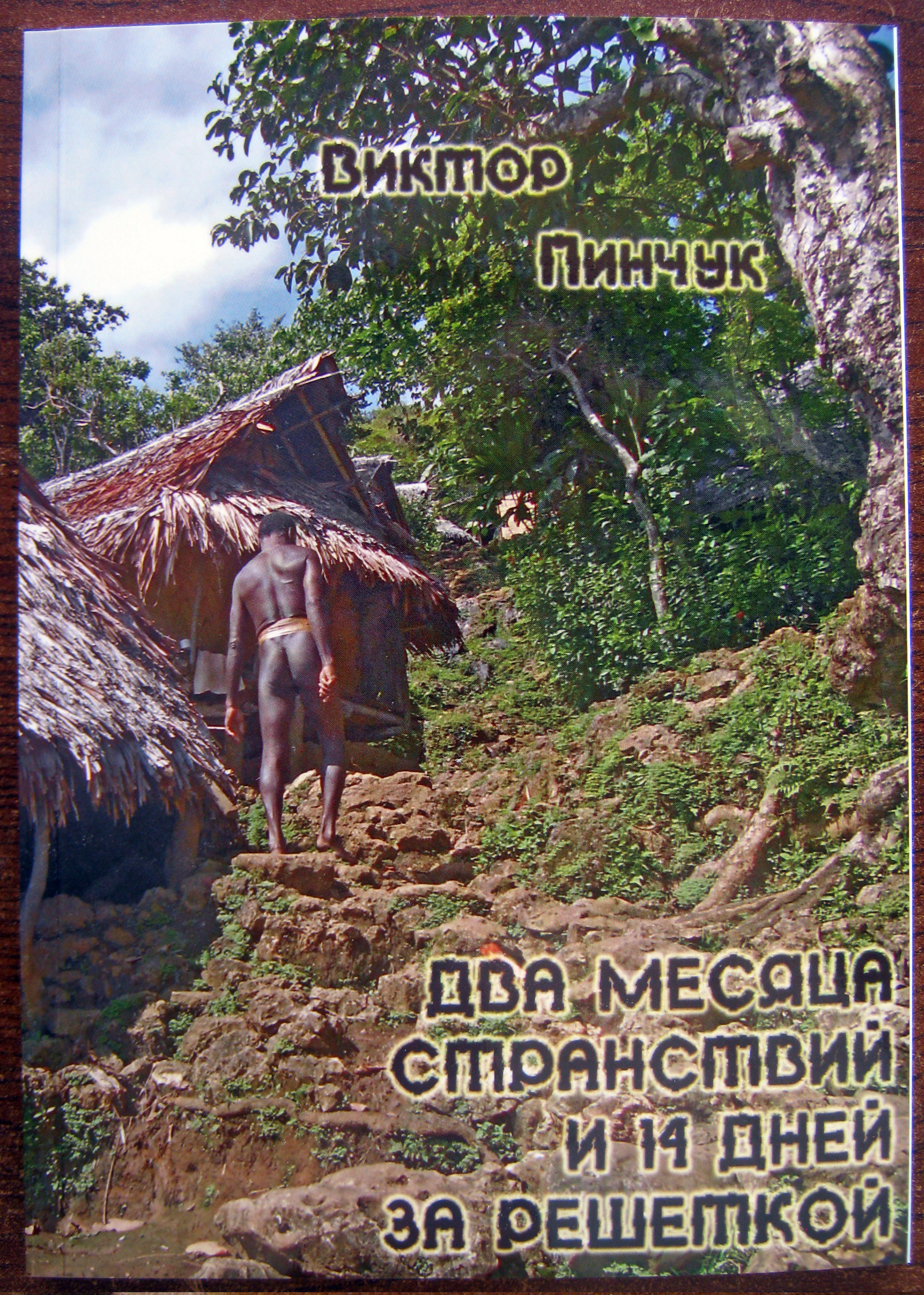 Pentecost island, Vanuatu, photo from book